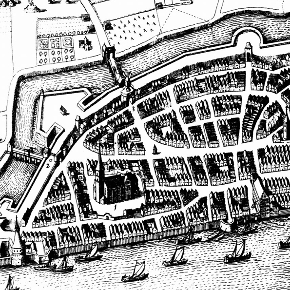 The Stephaniviertel in Bremen, Germany, clipping from a map by Matthäus Merian from the year 1641.